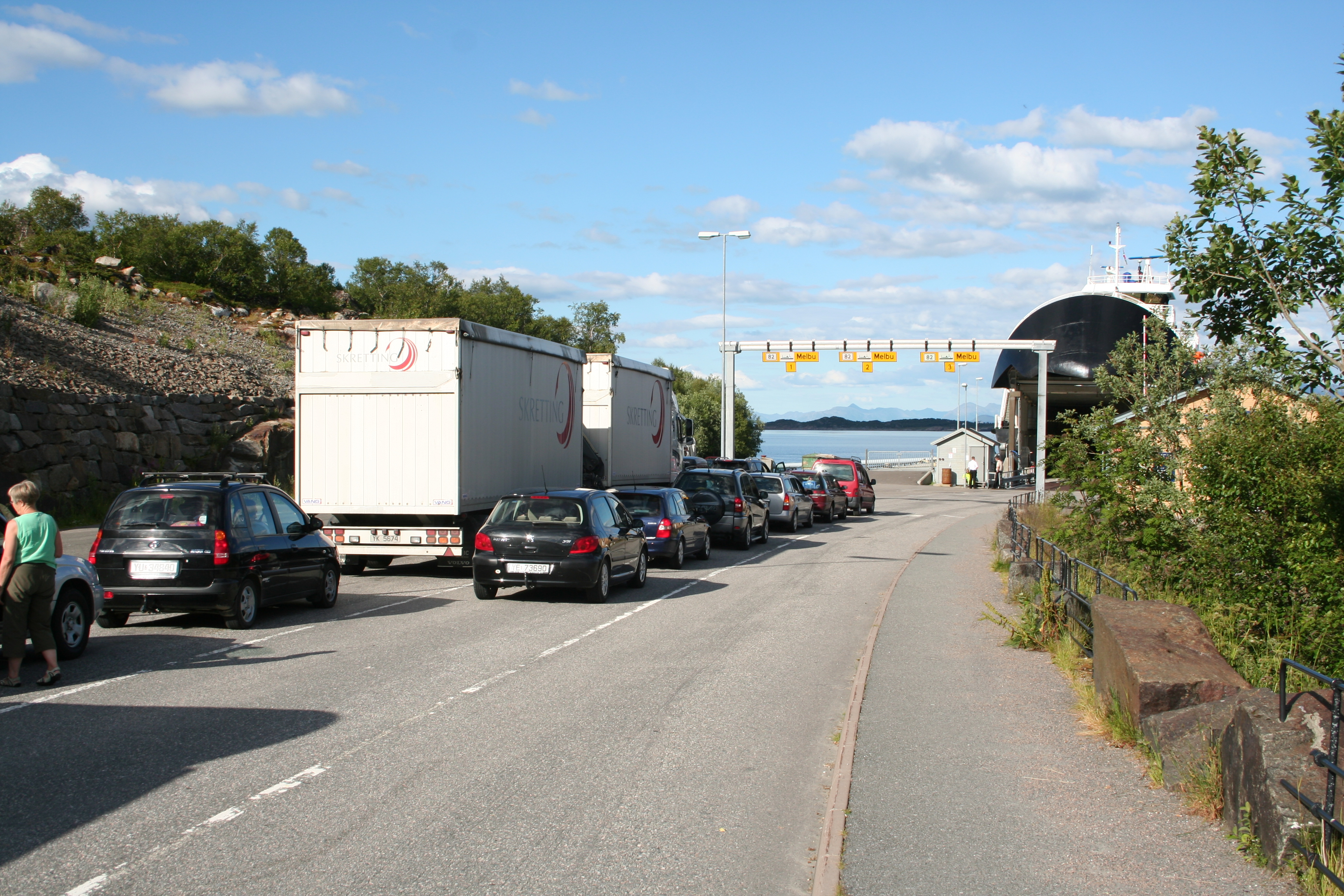 Cars waiting at the ferry terminal at Fiskebøl, Norway.